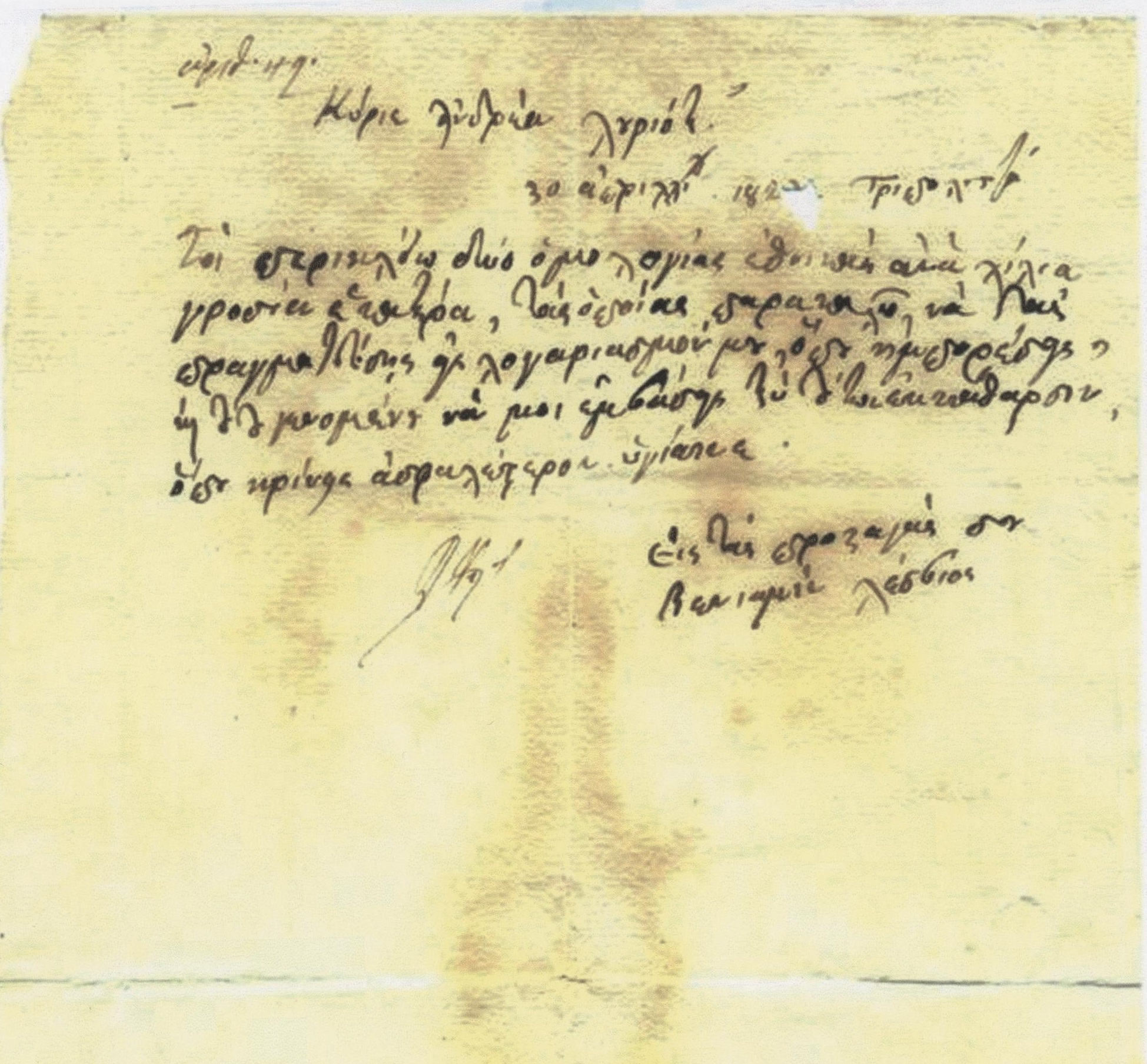 Veniamin Lesvios manuscript